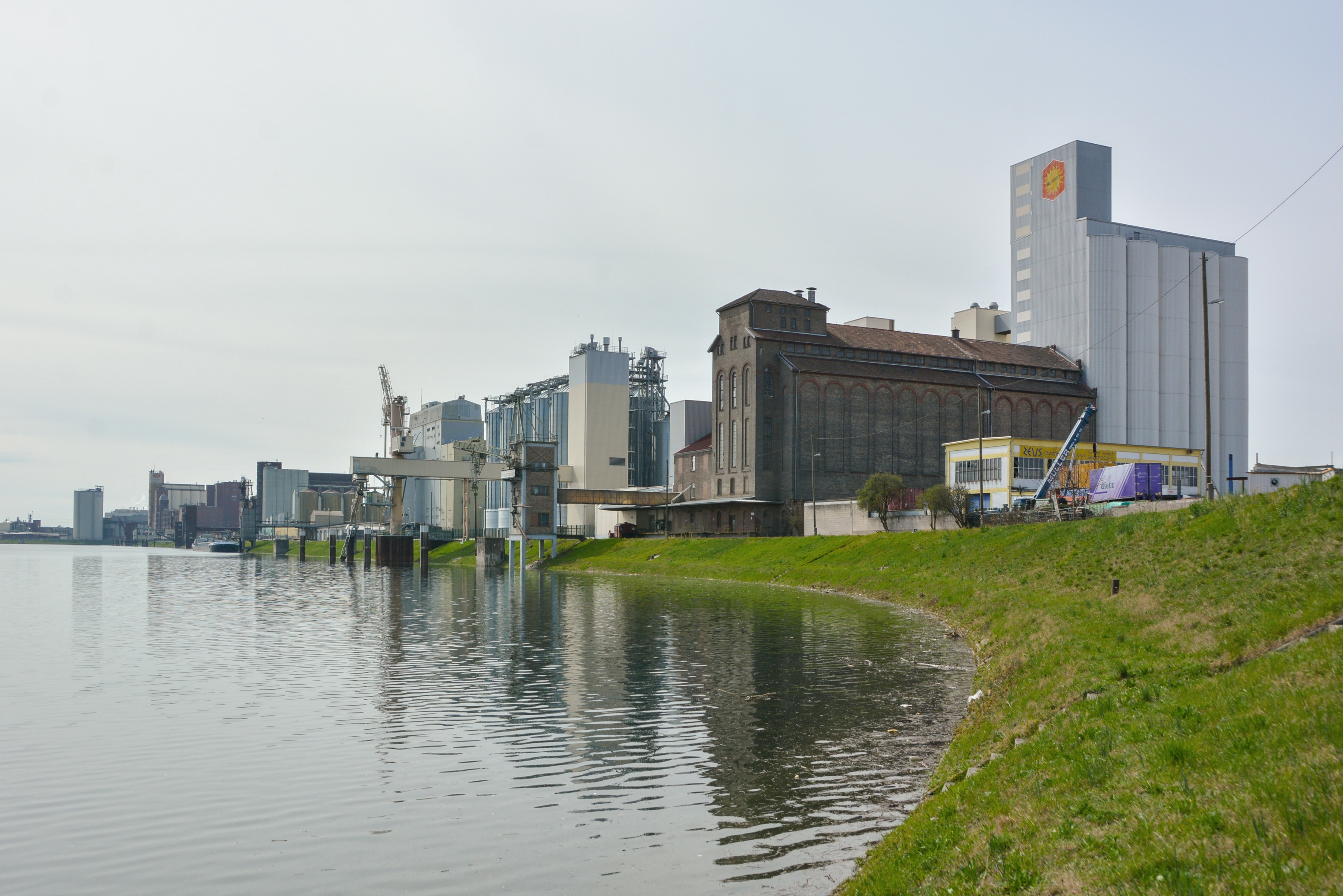 Mills along Industry Harbor (harbor 41), Friesenheim Island (Friesenheimer Insel), Mannheim, Germany